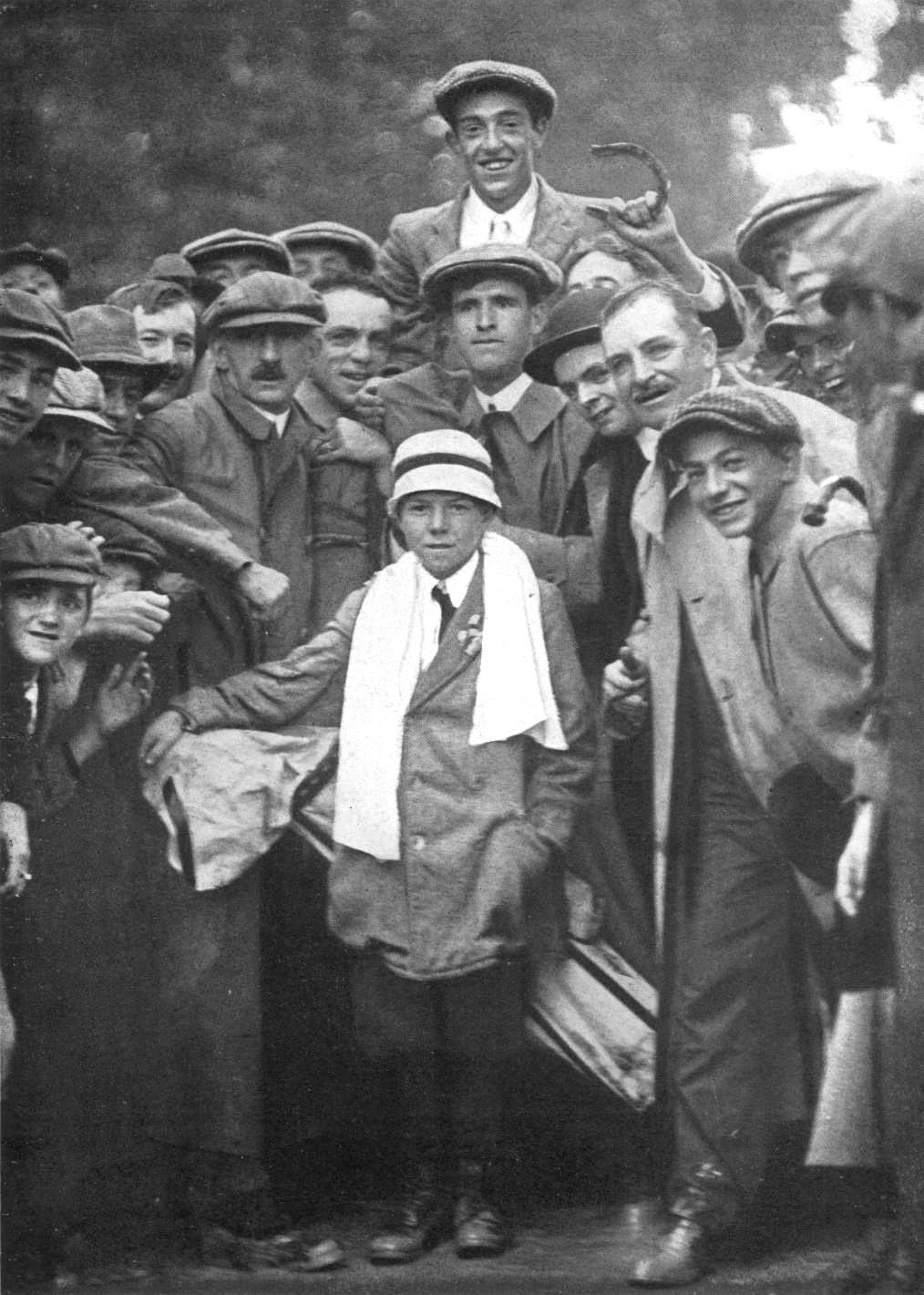 Francis Ouimet being carried by spectators following his famous 1913 U.S. Open win holding a horseshoe. Eddie Lowery, the 10-year-old boy who was his caddie for the match, is in the foreground with a towel around his neck. The original caption read: "Good Luck! Francis Ouimet on the shoulders of the crowd just after winning the Open Championship"